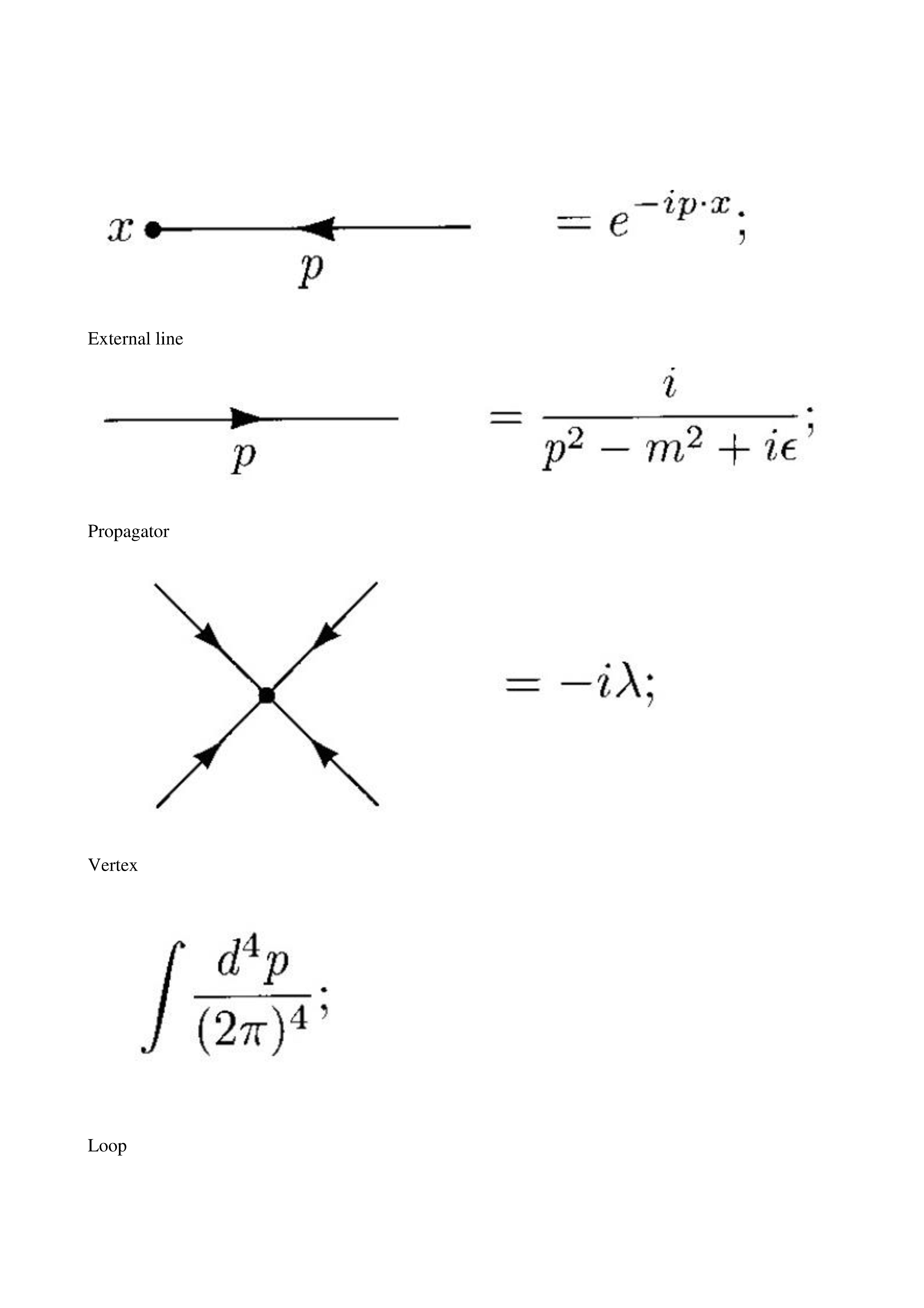 Feynman rule for the scalar quartic interaction